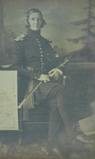 A Portrait of topographer James Duncan Graham